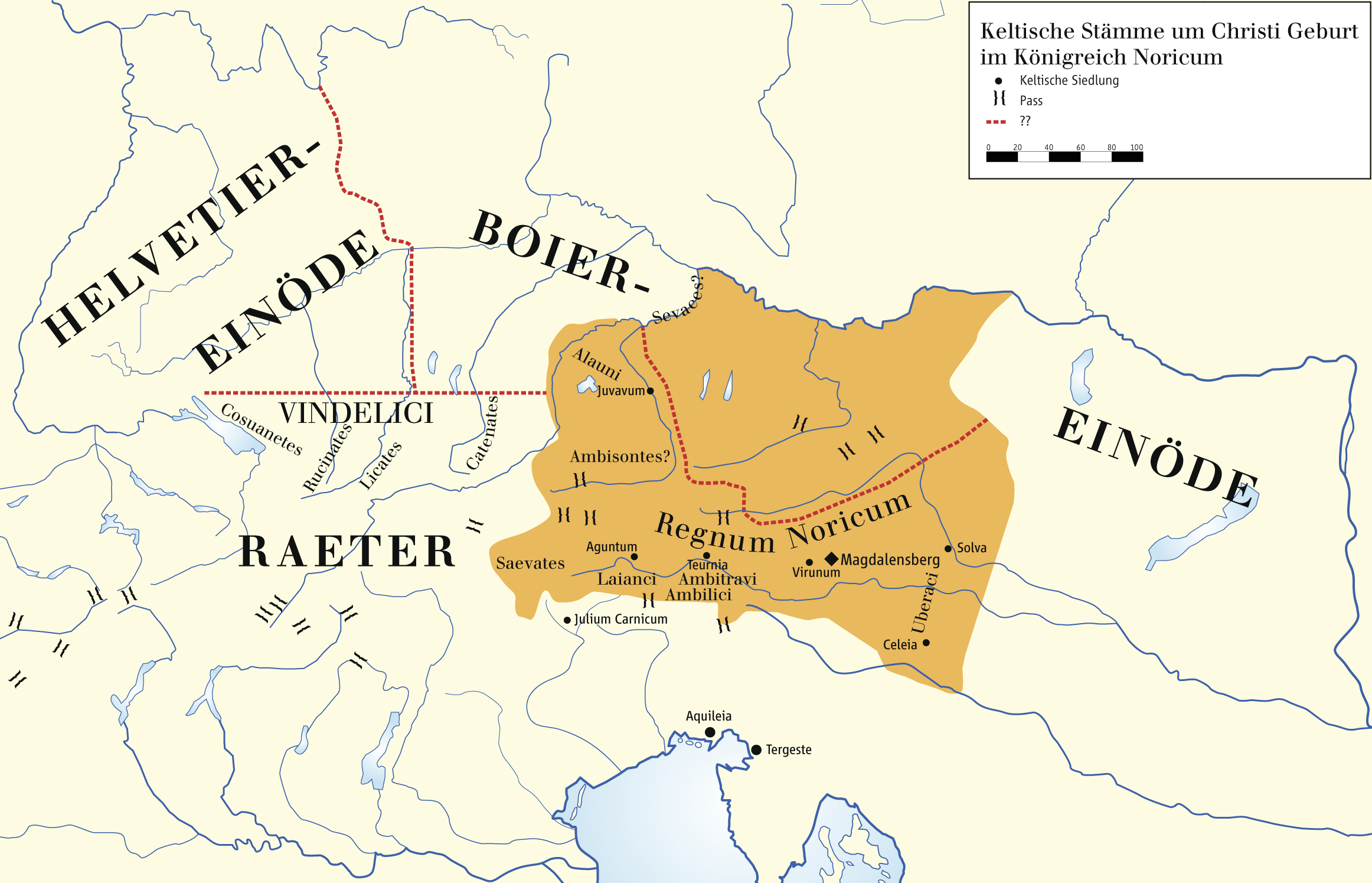 Celtic Tribes 0 C.E. in the Kingdom of Noricum (Carinthia / Styria / Upper Austria in Austria / EU)